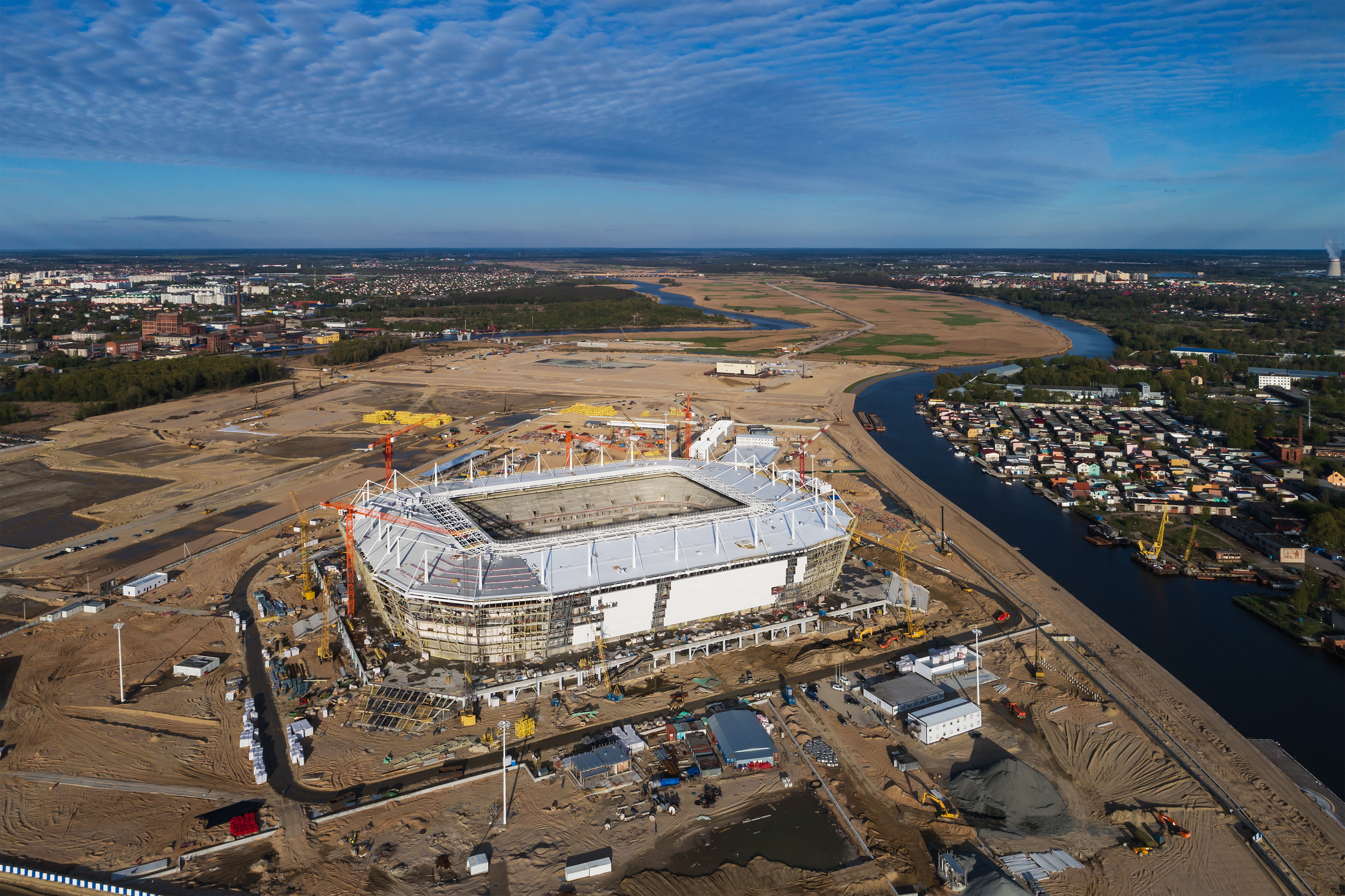 Construction site of FIFA World Cup 2018 stadium in Kaliningrad formerly Königsberg, Kaliningrad Oblast (Russia).